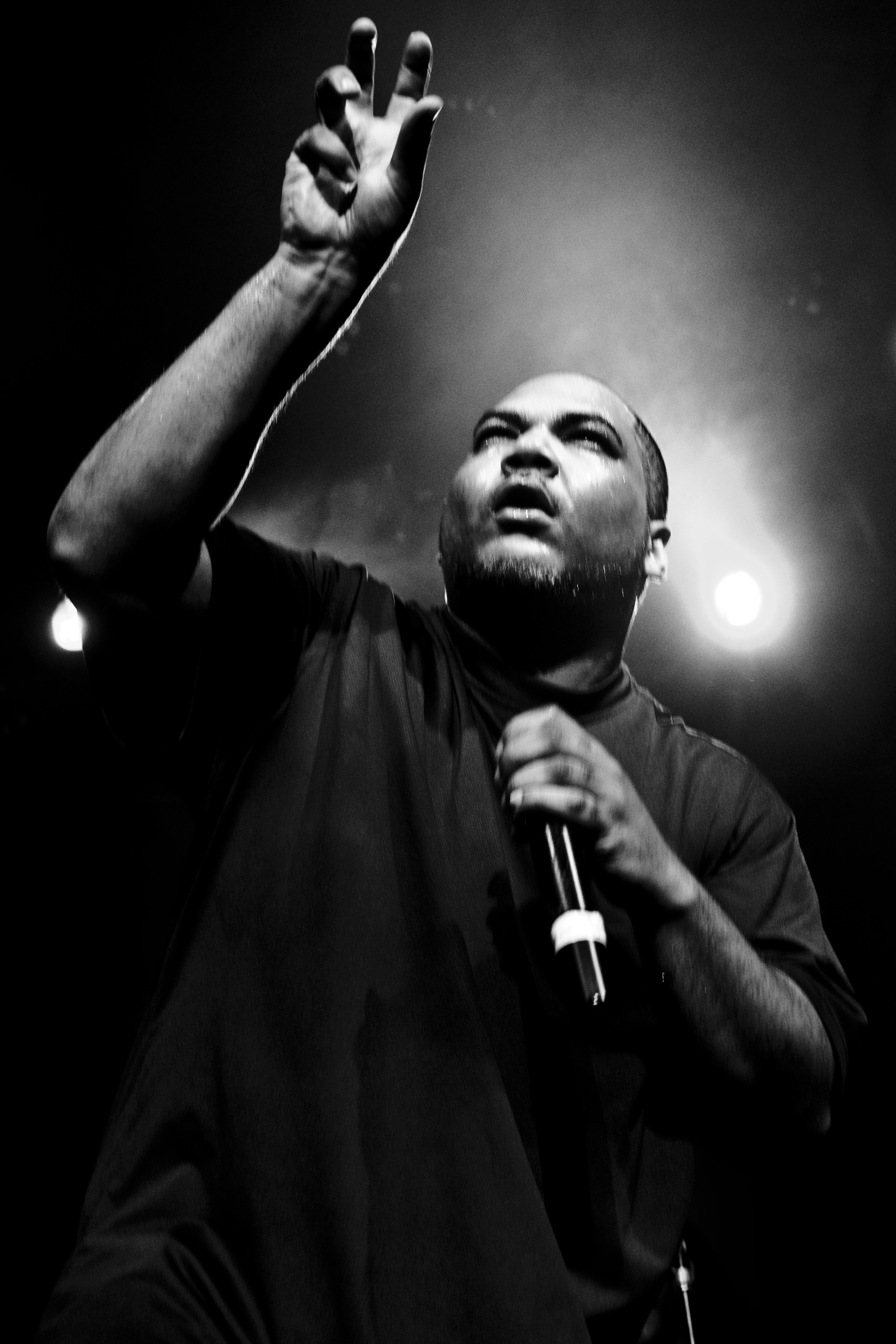 Mason performing at the Fillmore in San Francisco, July 2009